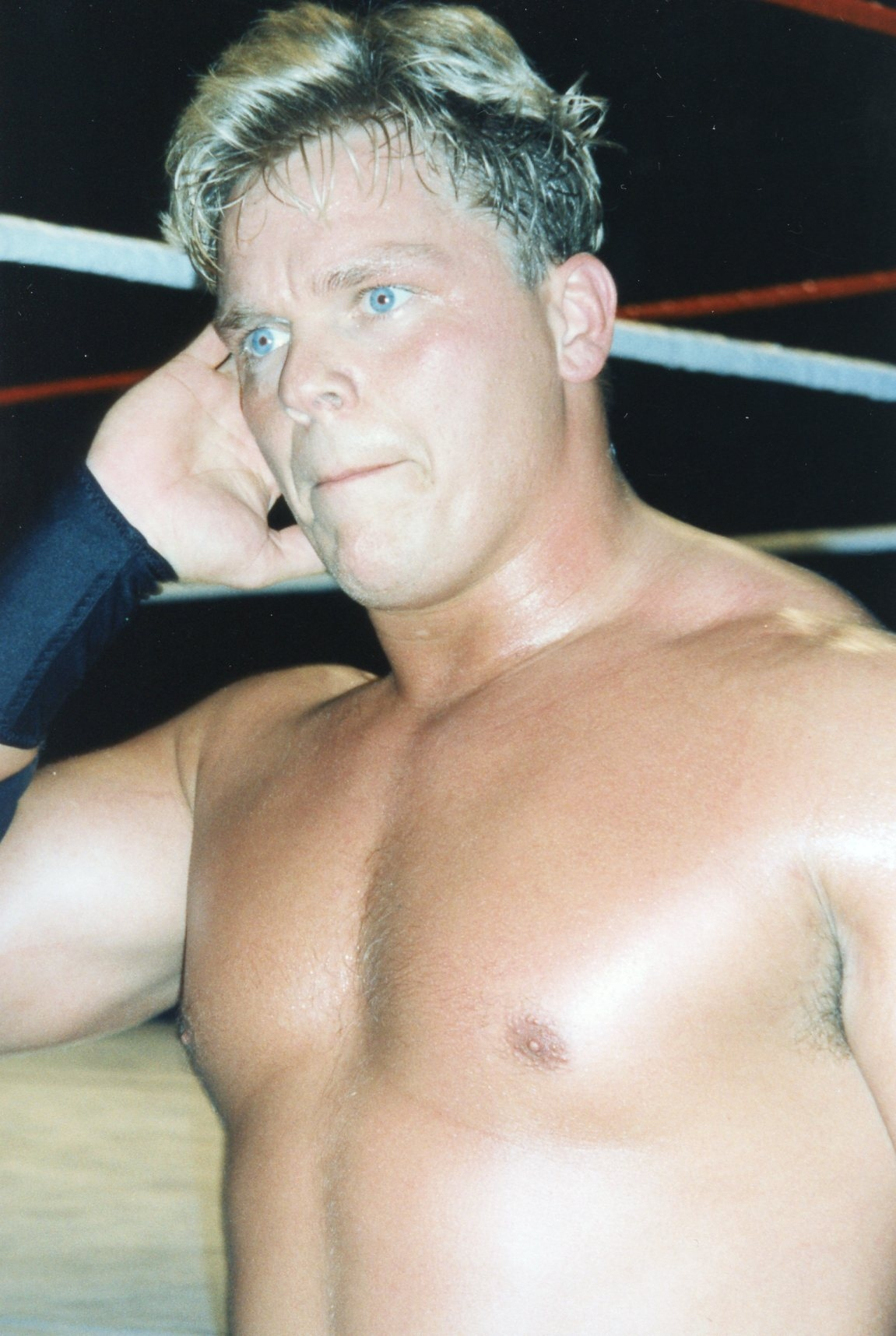 Troy Martin outside the ring during his WWF stint as "Dean Douglas". Taken October 4, 1995 at London, England's Royal Albert Hall.